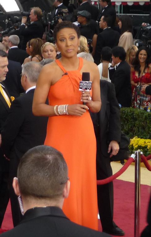 Robin Roberts, newscaster on ABC at 81st Annual Academy Awards.